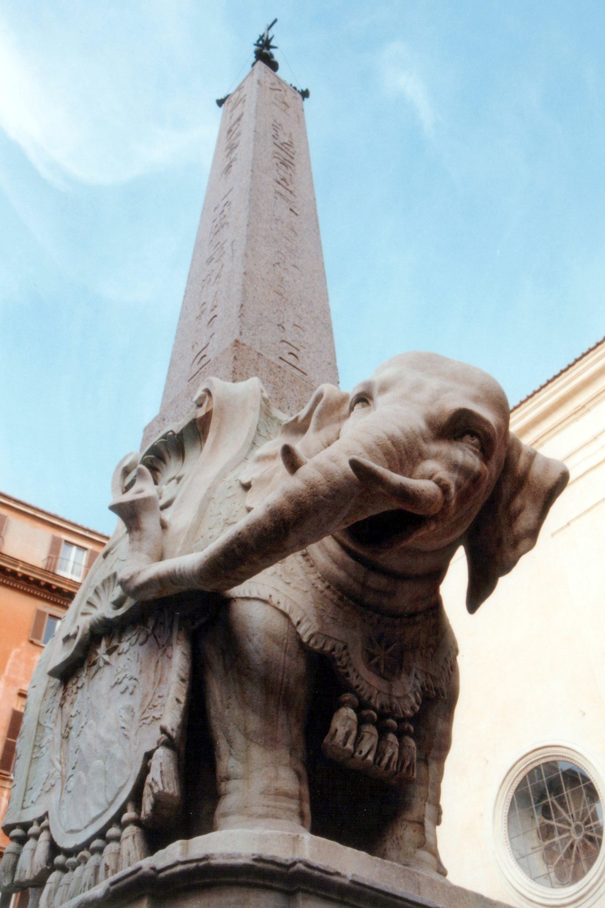 Rome Italy, Elephant of Bernini at Piazza della Minerva.